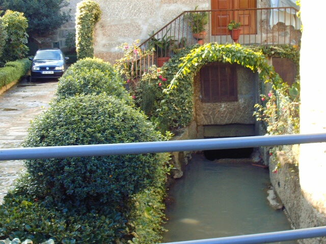 Couros´river, next to the Youth Hostel.